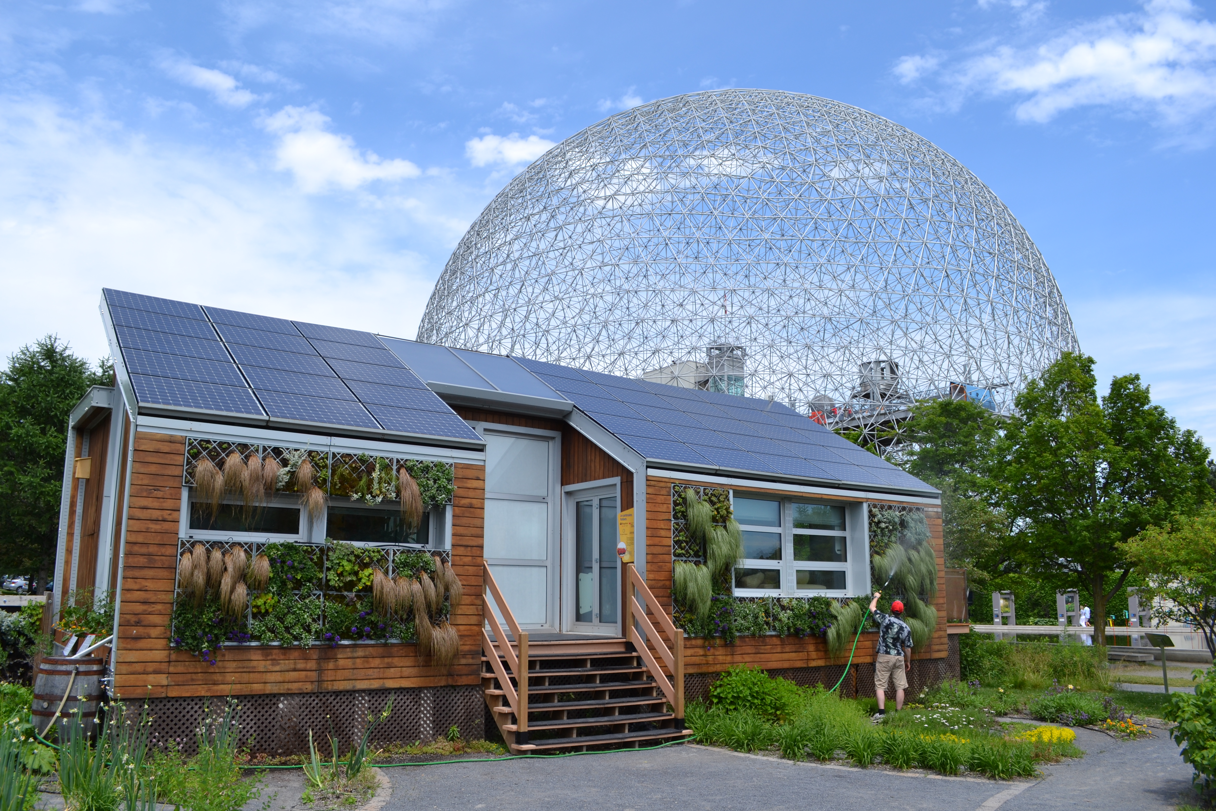 The Ecoological Solar House is located on the Saint Helen's Island, Montreal, Canada. The solar house was designed by students of McGill University, University of Montreal and the École de technologie supérieure in the context of international competition Solar Decathlon in Washington, DC. The Ecoological Solar House, Environment Canada.